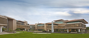 Suzlon